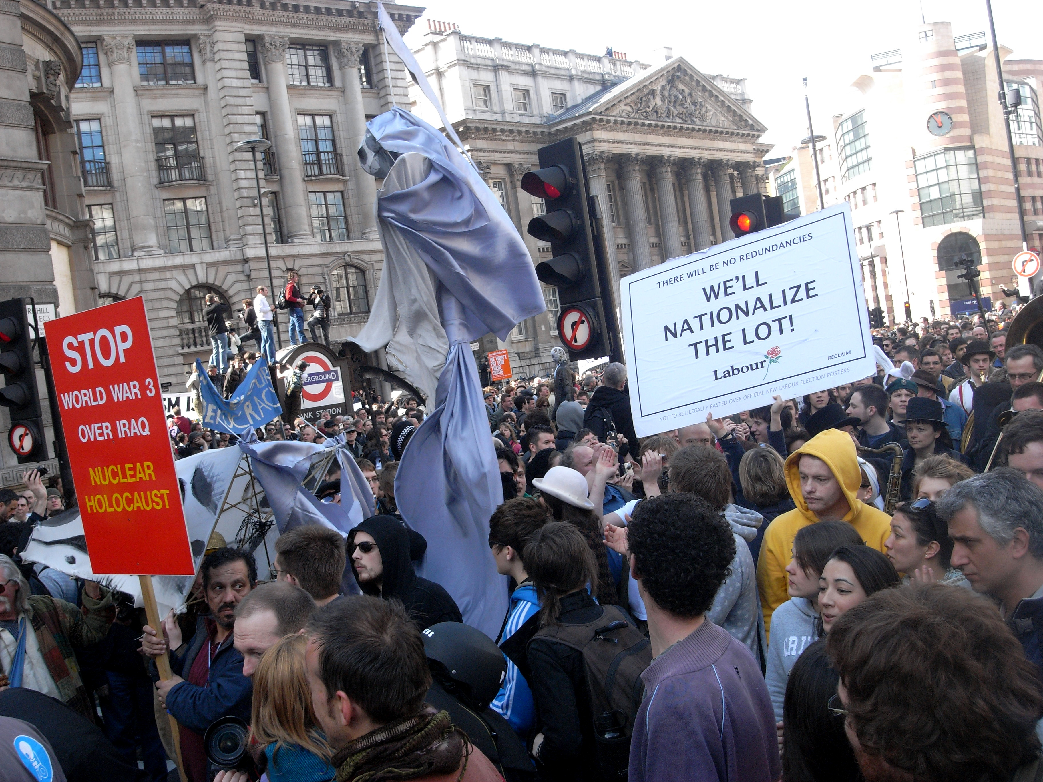 The crowd at the G20 Meltdown protest in London on 1 April 2009, including one of the four "Horsemen of the Apocalypse".